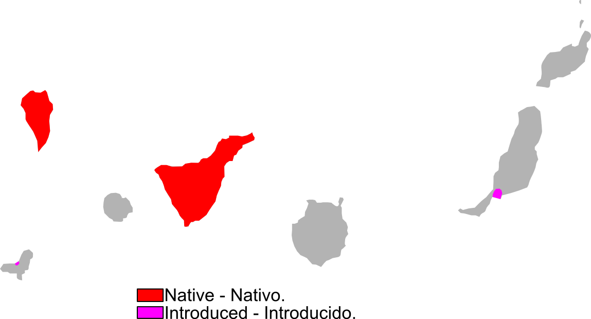 Gallotia galloti range map.